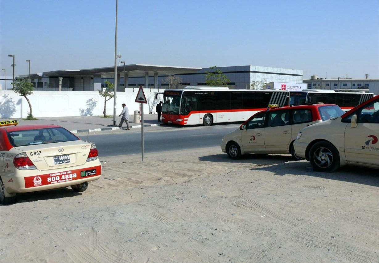 This is a photo of Dubai Buses (the bus at the front is Route X25) and Dubai Taxis in Al Qusais, Dubai, United Arab Emirates on 31 December 2007. The buses are Mercedes-Benz Citaro.